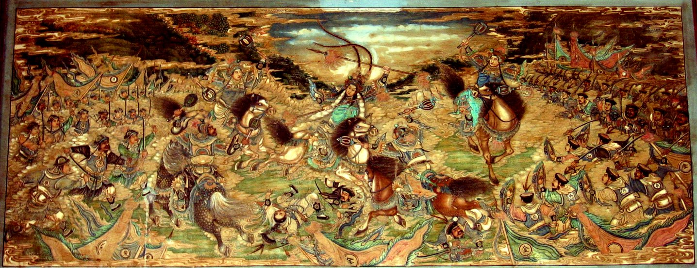 Photograph of the painting "The Battle of Zhuxian County" inside the Long Corridor on the grounds of the Summer Palace, constructed during the Qing Dynasty, in Beijing, China. Photograph taken on April 17, 2005 by Rolf Müller.